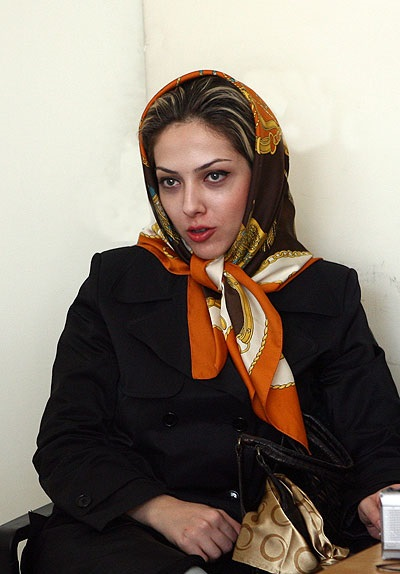 Leila Otadi, 23 October 2006 (5 8508010584 L600)